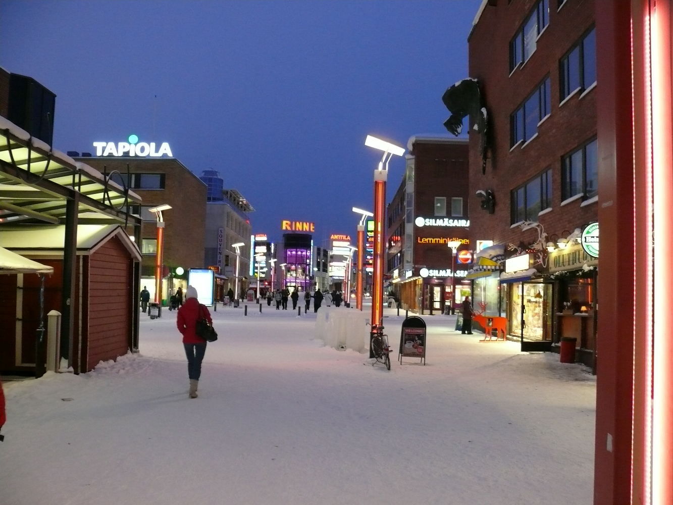 Rovaniemi. Koskikatu.